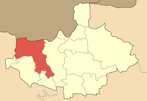 Locator map of Axioupolis municipality (Δήμος Αξιούπολης) at Kilkis perfecture, Greece.